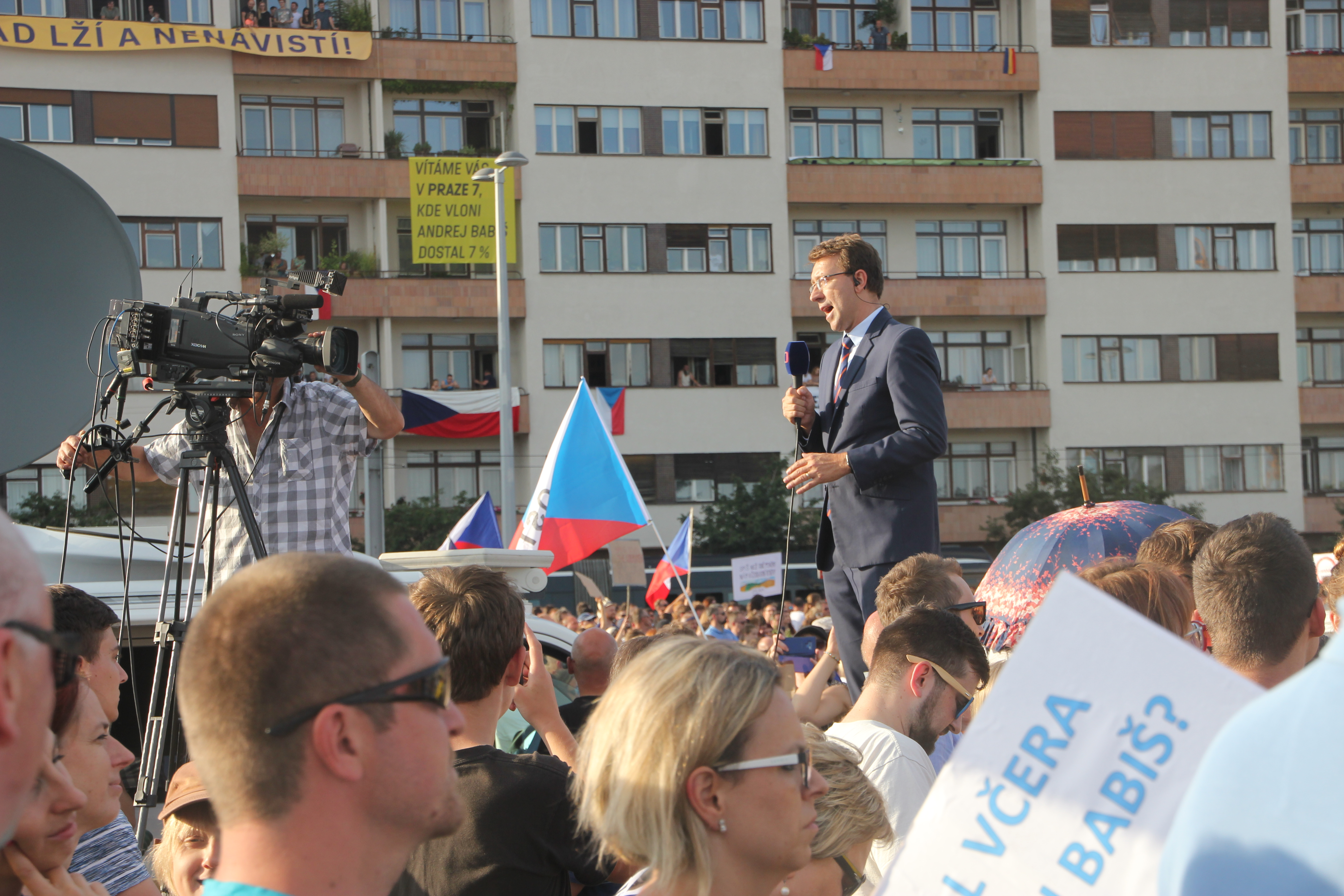 Demonstration against the government of Andrej Babiš at Letná in Prague (Czech Republic) on 23 June 2019